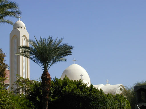 Saint Michael's Coptic Orthodox Cathedral in Aswan. A modern Coptic monastery and cathedral.